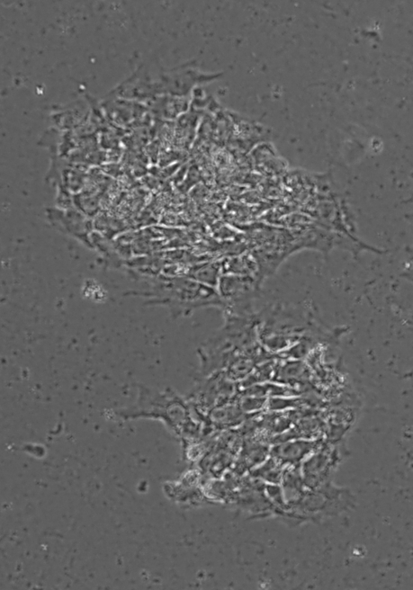 Human Embryonic Stem Cells (hESC). Two colonies of human embryonic stem cells grown in feeder free condition on matrigel support. Phase contrast microphotography.